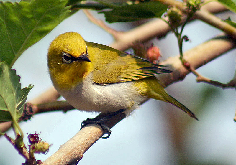 Oriental White-eye Zosterops palpebrosus in Kullu District of Himachal Pradesh, India.